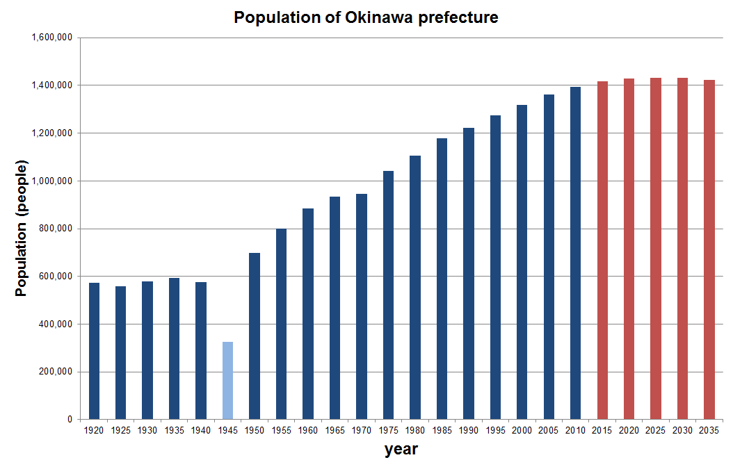 This chart is the population of Okinawa prefecture.It is investigated between 1920 and 2010 in Okinawa prefecture, Japan.But by 1945, it is represented the estimated population of that year (light blue),and red bars are future of population estimates after 2015.